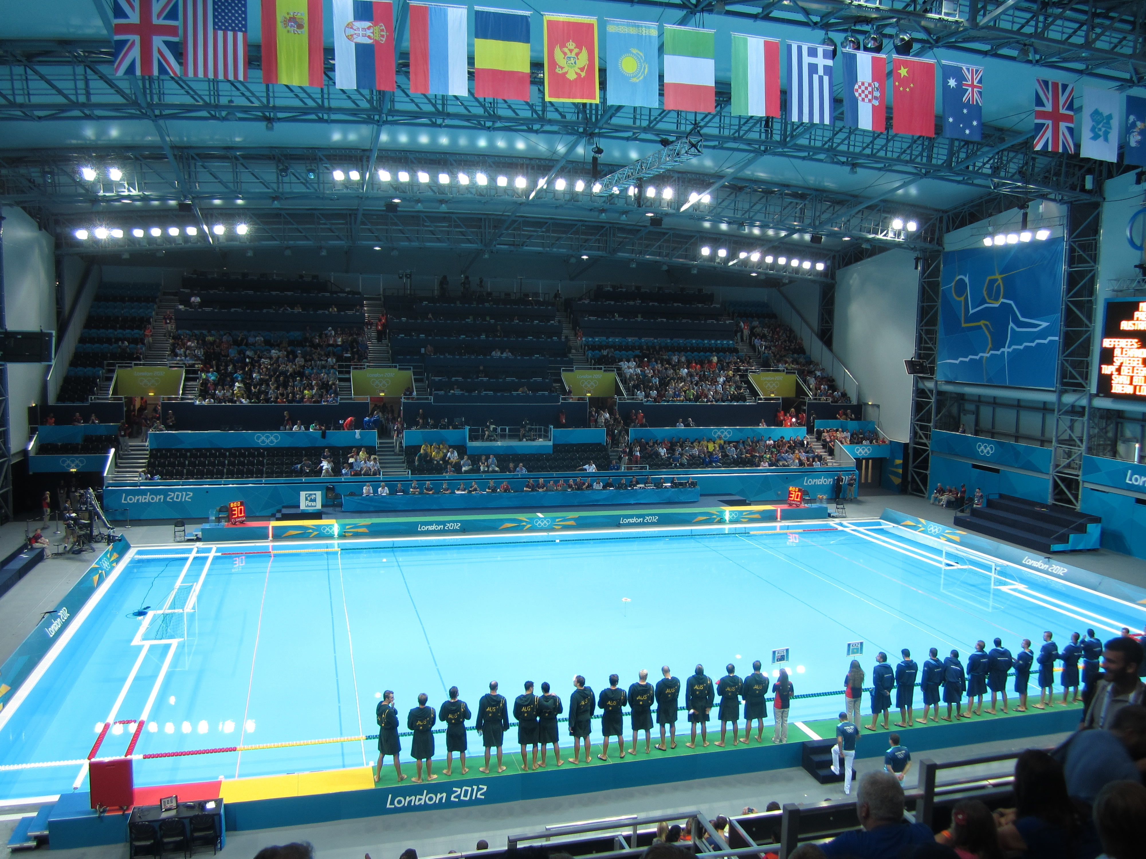 Water Polo - Australia vs Kazahstan